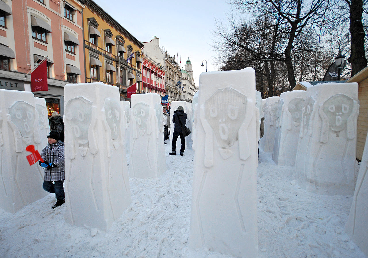 Snow and ice sculpture "The Scream" (Norwegian "Skrik") after Edvard Munch. Artist Mark Szulgit, USA. Placed on Karl Johans gate, Oslo's main street, during FIS Nordic World Ski Championships 2011, as part of cultural programme